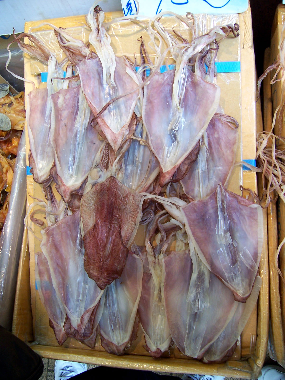 Dried squid, as sold by a shop in Kennedy Town, Hong Kong. Taken by Enoch Lau on 3 January 2006. As a courtesy, please let me know if you alter this image or this image description page. Original filename was 100_1335.JPG.